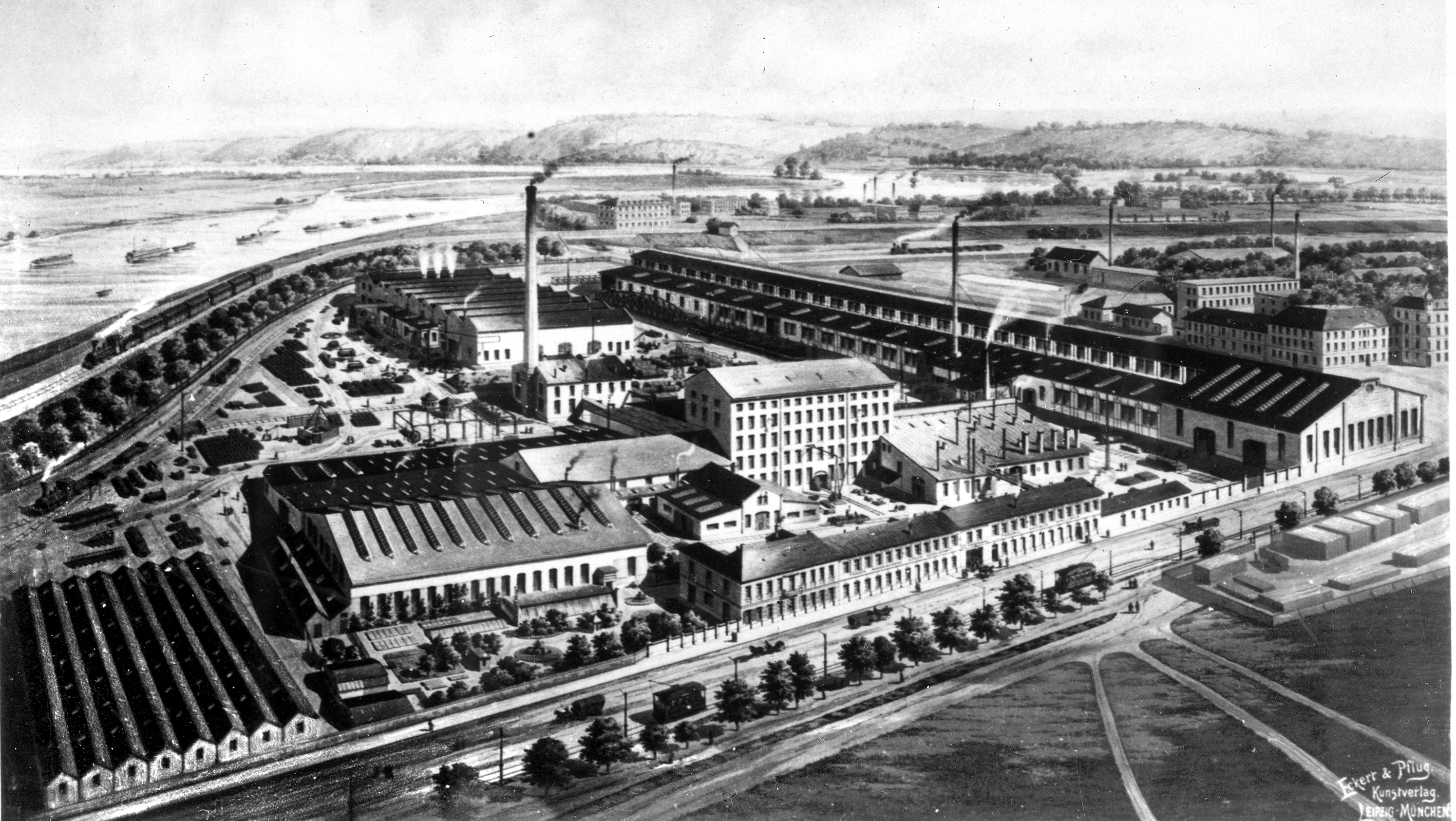 grounds in 1900